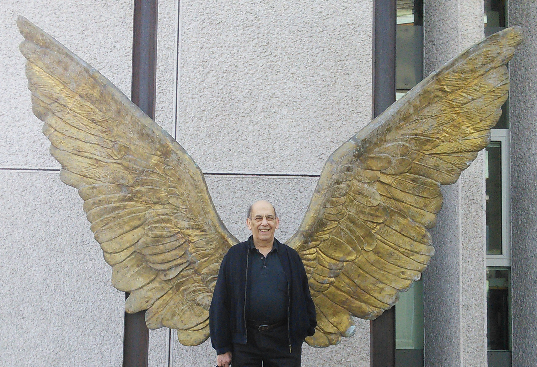 Stan Persky in front of the 'Wings of Mexico' by Jorge Marín at the Embassy of Mexico,Rauchstraße 27, Berlin-Tiergarten